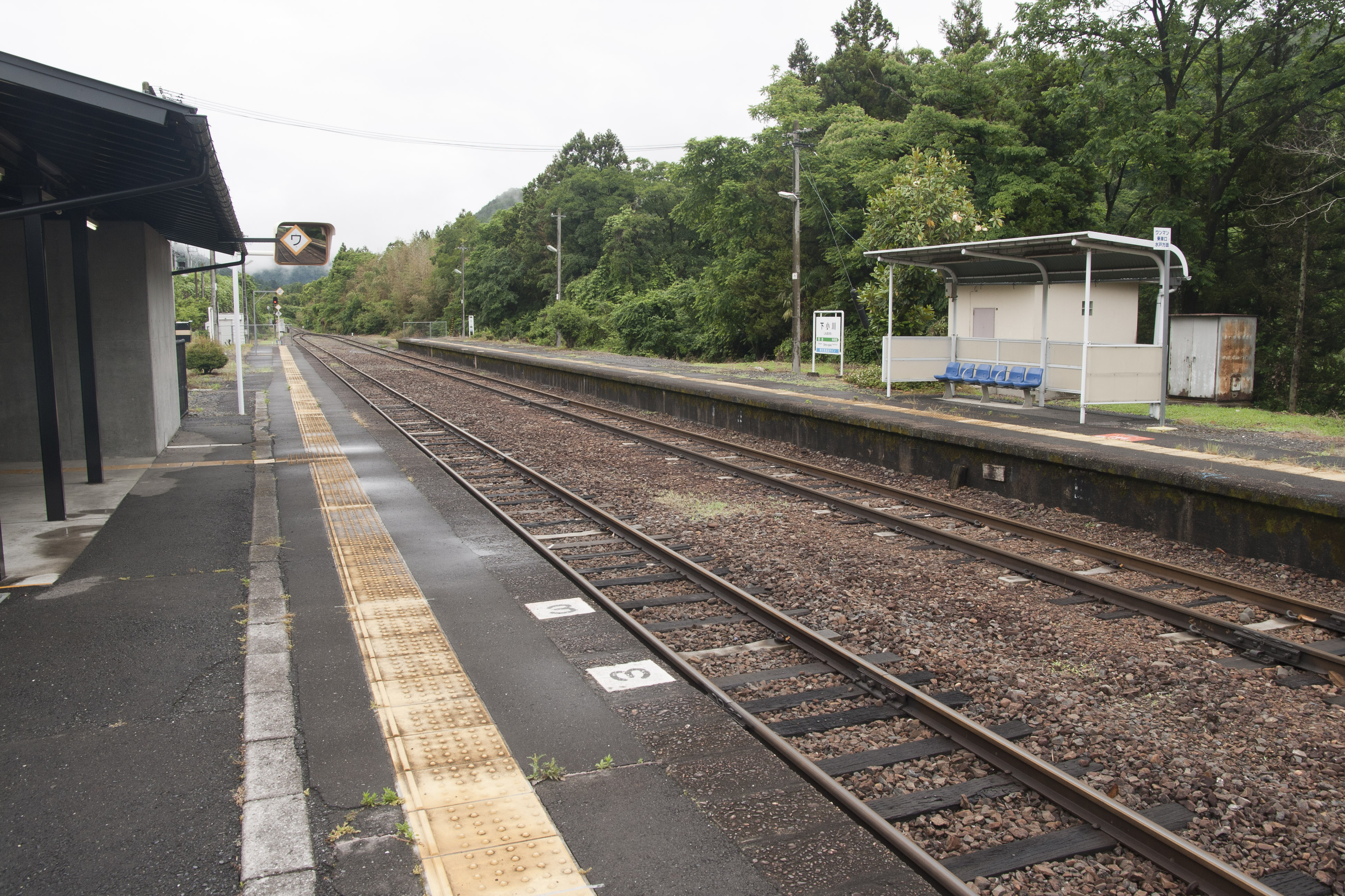 Shimo-Ogawa Station in Hitachi-Omiya City, Ibaraki Prefecture, Japan.